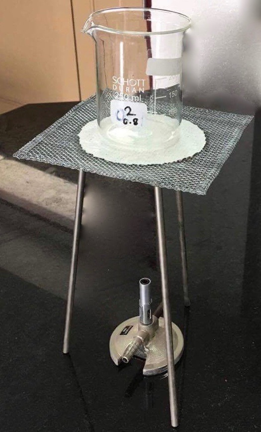 Laboratory tripod used with bunsen burner, wire gauze and a beaker.